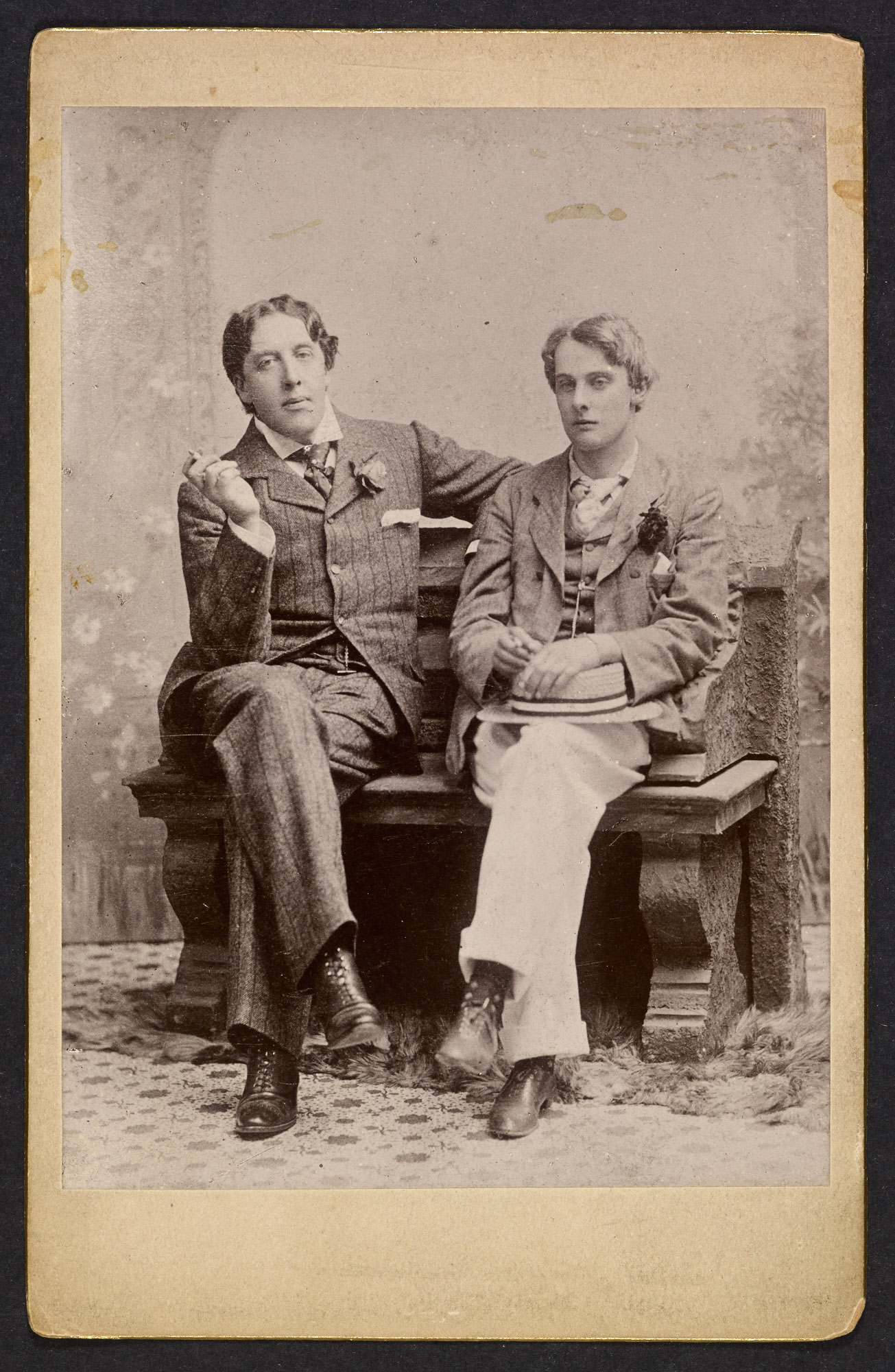 Oscar Wilde and Alfred Douglas